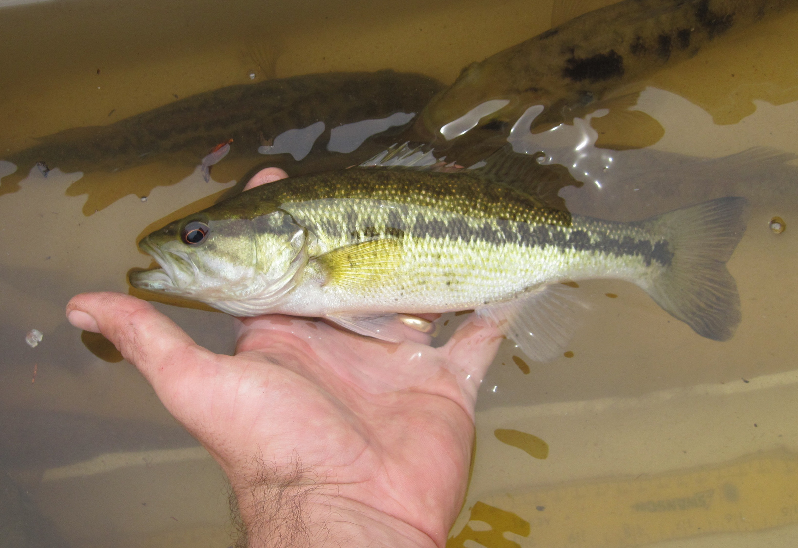 Photo